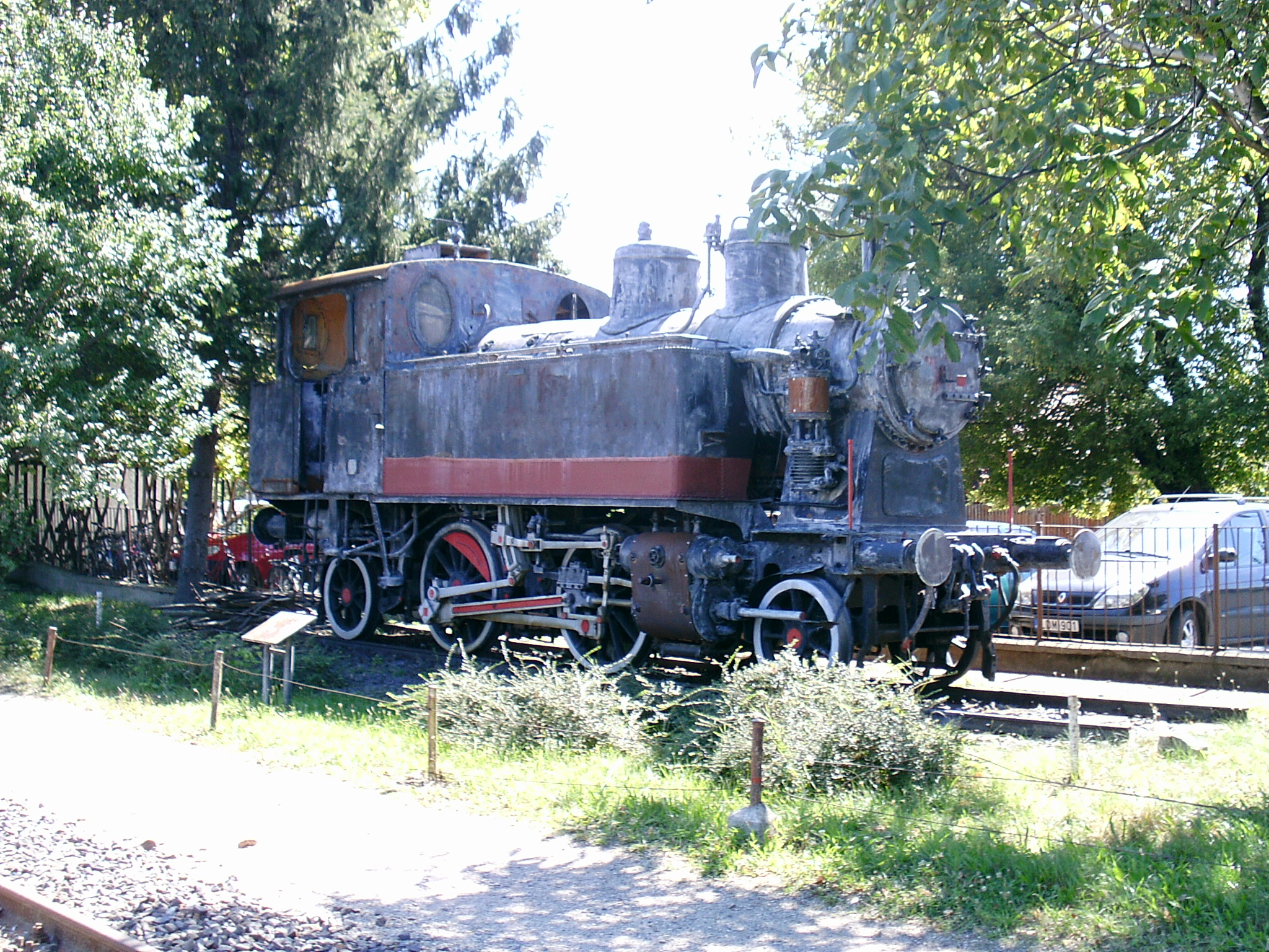 MÁV 275 120 steam locomotive, Tiszafüred station